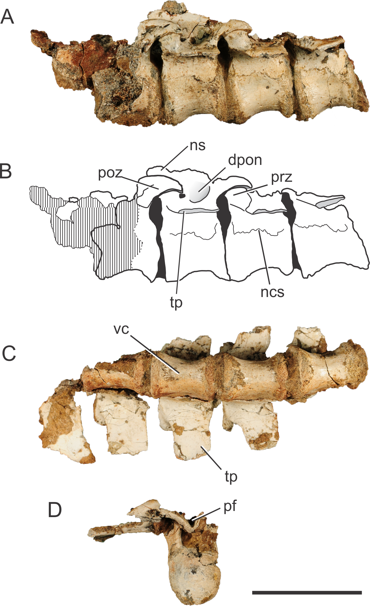 Pissarrachampsa sera (holotype, LPRP/USP 0019), photographs and schematic drawing of the articulated dorsal vertebrae in left lateral (A and B) and ventral views (C), and isolated dorsal vertebra in caudal view (D). Cross-hatched areas represent broken surfaces. Black areas represent sediment-filled areas. Abbreviations: dpon, depression between the postzygapophysis and the neural spine; ns, neural spine (base); ncs, neurocentral suture; pf, postspinal fossa; poz, postzygapophysis; prz, prezygapophysis; tp, transverse process; vc, vertebral centrum. Scale bar equals 5 cm. Scale bar equals 80 cm.